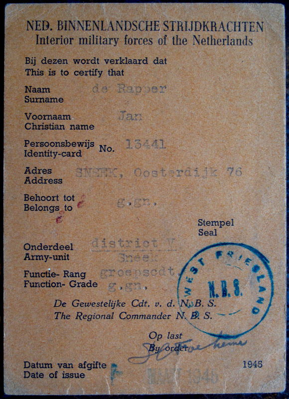 1945 Verklaring Ned. Binnenlandse Strijdkrachten Jan de Rapper Sneek